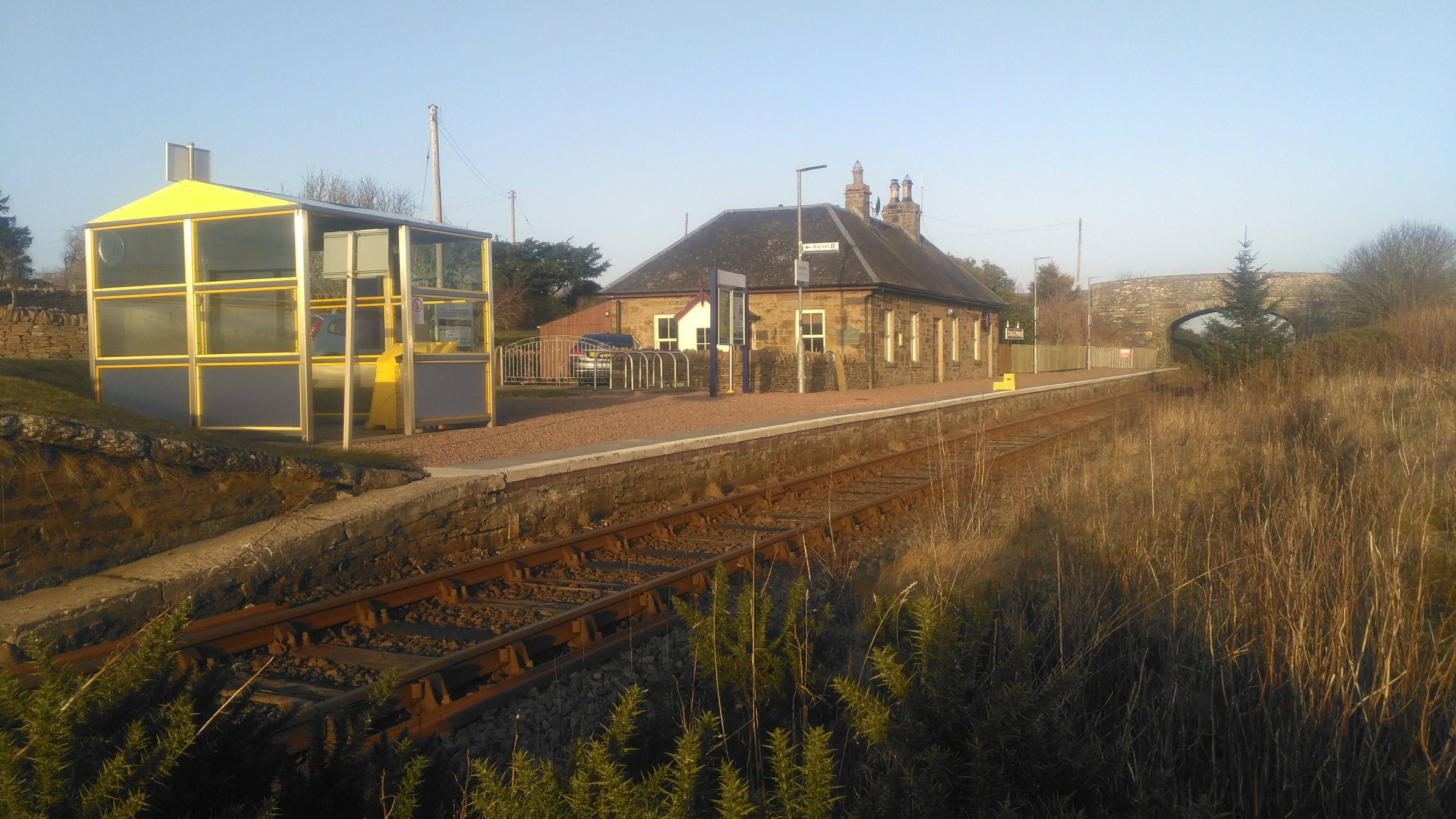 Scotscalder railway station looking east towards Georgemas Junction and Wick.